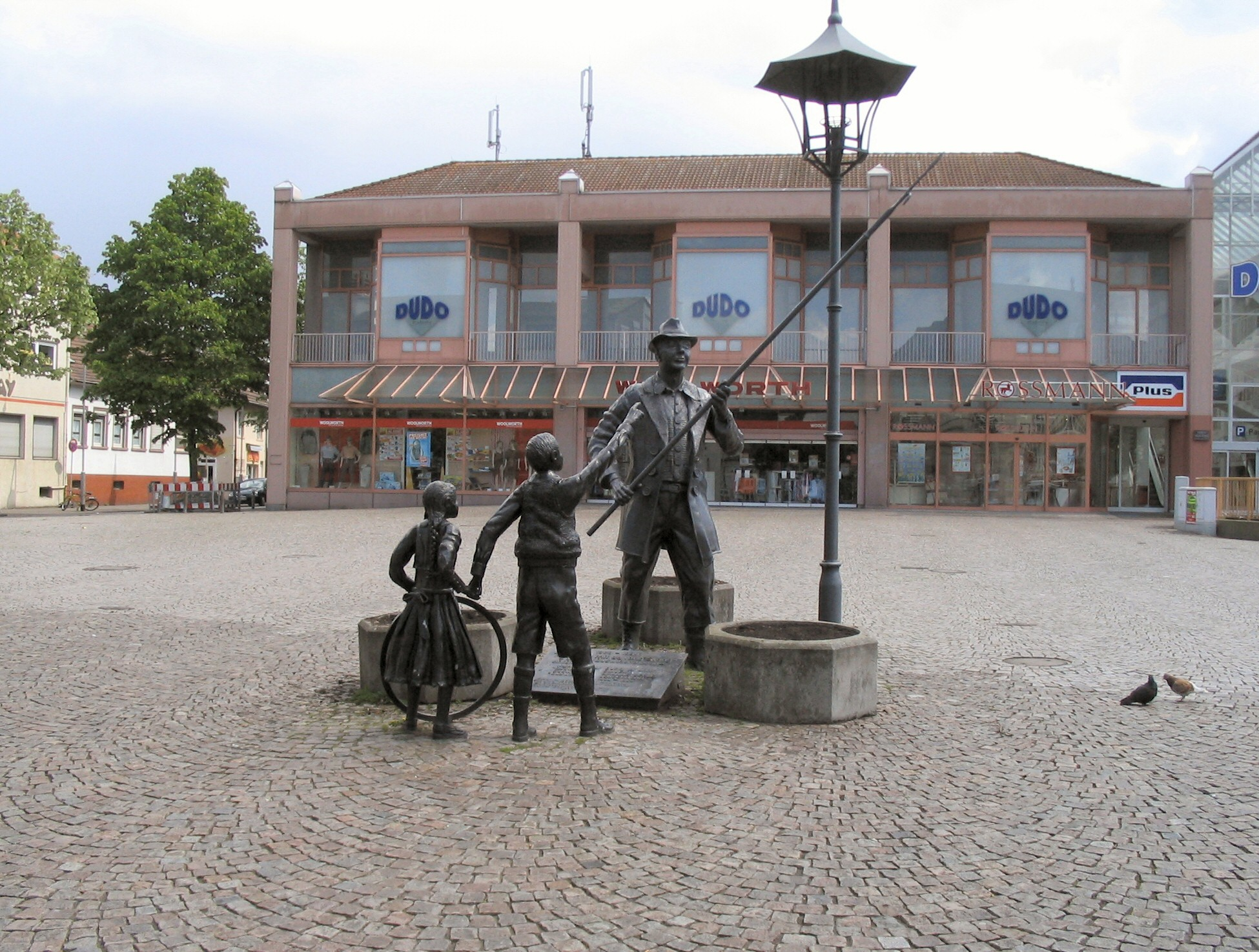 Description: The monument De Monn mit da long Stong by Zoltan Hencze in Dudweiler (Saarbrücken/Germany). Photographer: kh80 Date: 2005-05-08 License: GFDL and cc-by-sa/2.0/de